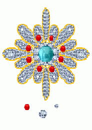 Own drawing after the picture on [1]